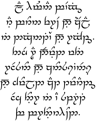 This is the first article of the Universal Declaration of Human Rights in Tolkien’s Tengwar script (in English). This image makes use of the Tengwar font Tengwar Annatar 1.20. Anyway, this is not a copy of the font, and I have said (on Commons:Village pump) that especially in raster graphics, possible font copyrights do not apply. (However, the exact status of an invented script is somewhat unclear.)